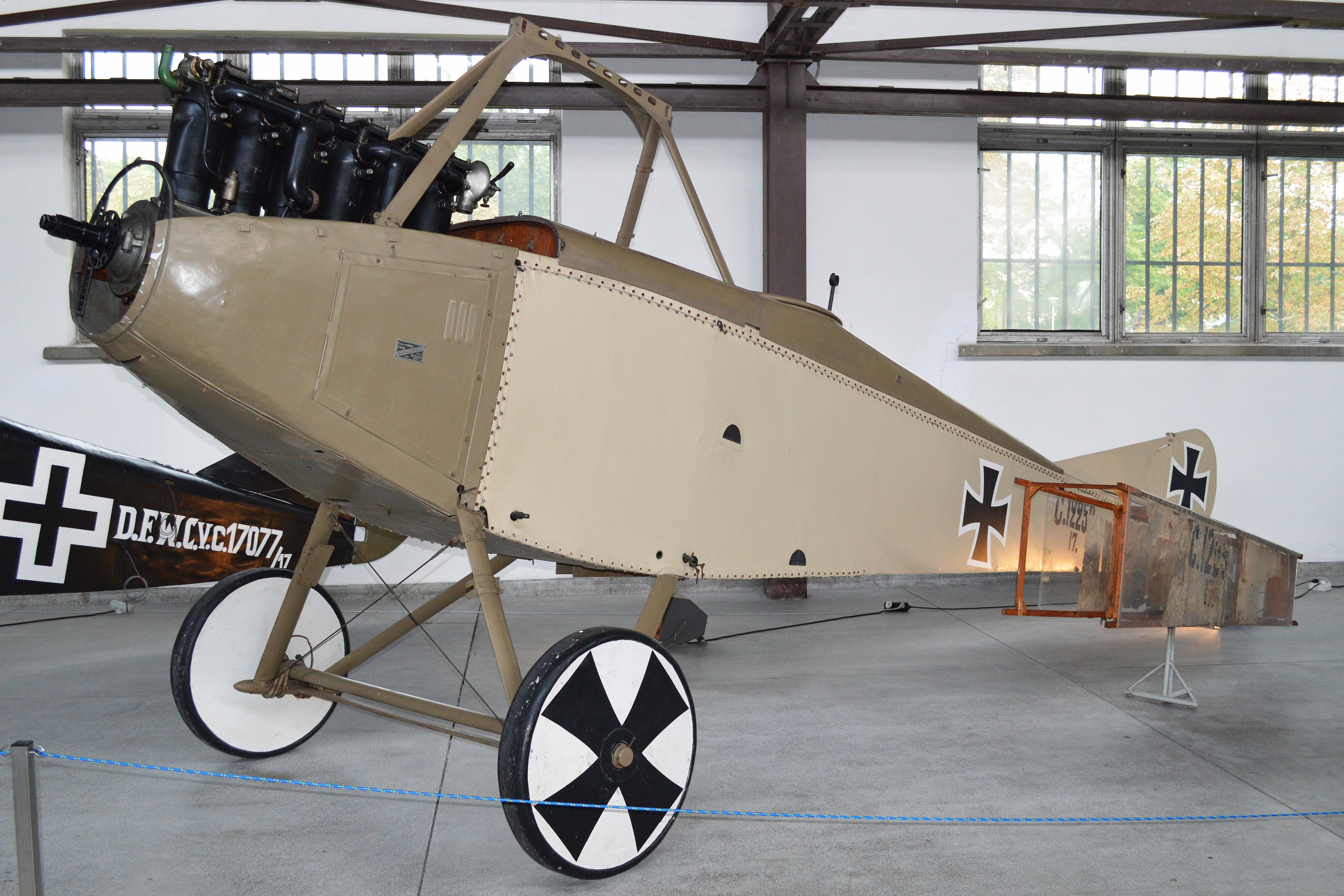 Yet another sole surviving example, this is one of 80 Aviatik C.IIIs built and is c/n 1996. The restored fuselage is on display in the 'WW1' hangar at the Muzeum Lotnictwa Polskiego. Krakow, Poland. 23-8-2013. It's history is given in the following info taken from the museum website:- "The reconnaissance aircraft Aviatik C.III was designed in 1916 at the Aviatik Flugzeugwerke works in Leipzig, and was an improved variant of the earlier, C.I version used by the German aviation since 1915. The C.III, similar to the C.I version was not produced in great numbers – only 80 aircraft were built in the years 1916–1918. It was caused by the decision of the last months of 1916, to switch the factory's industrial capabilities to the licence production of a more modern and more useful DFW C.V. The Aviatik C.III airframes differed from the earlier versions in having an improved front fairing; a propeller spinner and radio equipment were also added. During World War I, the Aviatik C.III aircraft were used in the German aviation units as reconnaissance machines and occasionally as escorts. In 1919, 7 Aviatik aircraft were commandeered by Polish military authorities on the ex-Prussian annexed territories, 3 of which were subsequently handed over to the Pilot's School in Poznań. Flying the 12342/17 aircraft, f/lt Wiktor Lang fatally crashed on the 4th of February 1920. The remaining 4 aircraft probably were never used. The exhibited C12250/17 fuselage of the single-engine, all-wooden Aviatik C.III biplane comes from 1917 and remains the only survivor in the world. Discovered during restoration, remains of a radio installation prove the service of the aircraft at a radio operators' school, or as a reconnaissance plane on the Western Front."